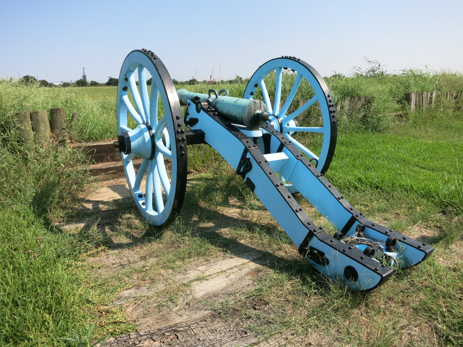 Photo shows a French-made 4-pounder Gribeauval cannon at Chalmette National Battlefield. The cannon is located at Battery 5 and points toward the southeast.